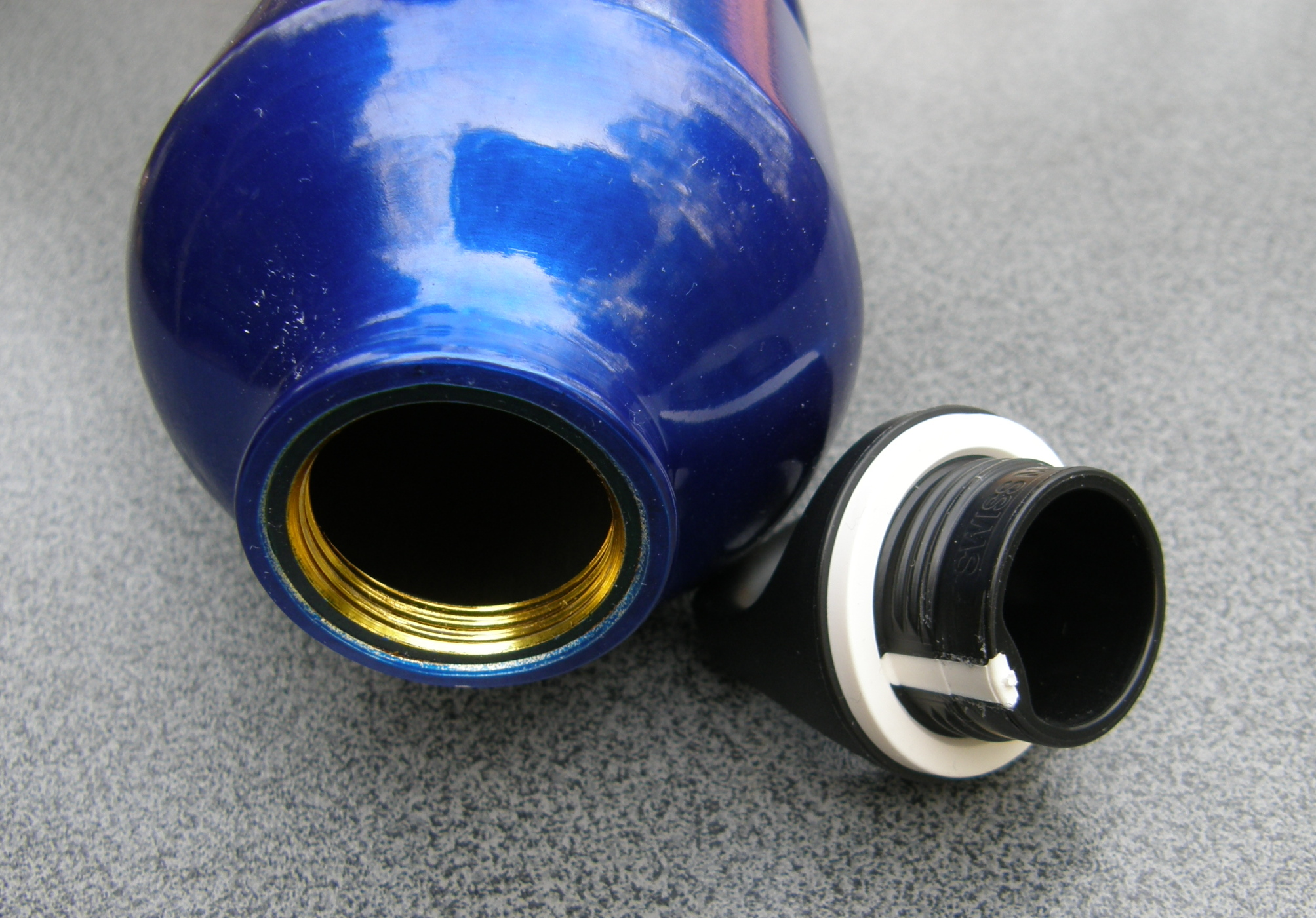 Sigg-Bottle with screwhead